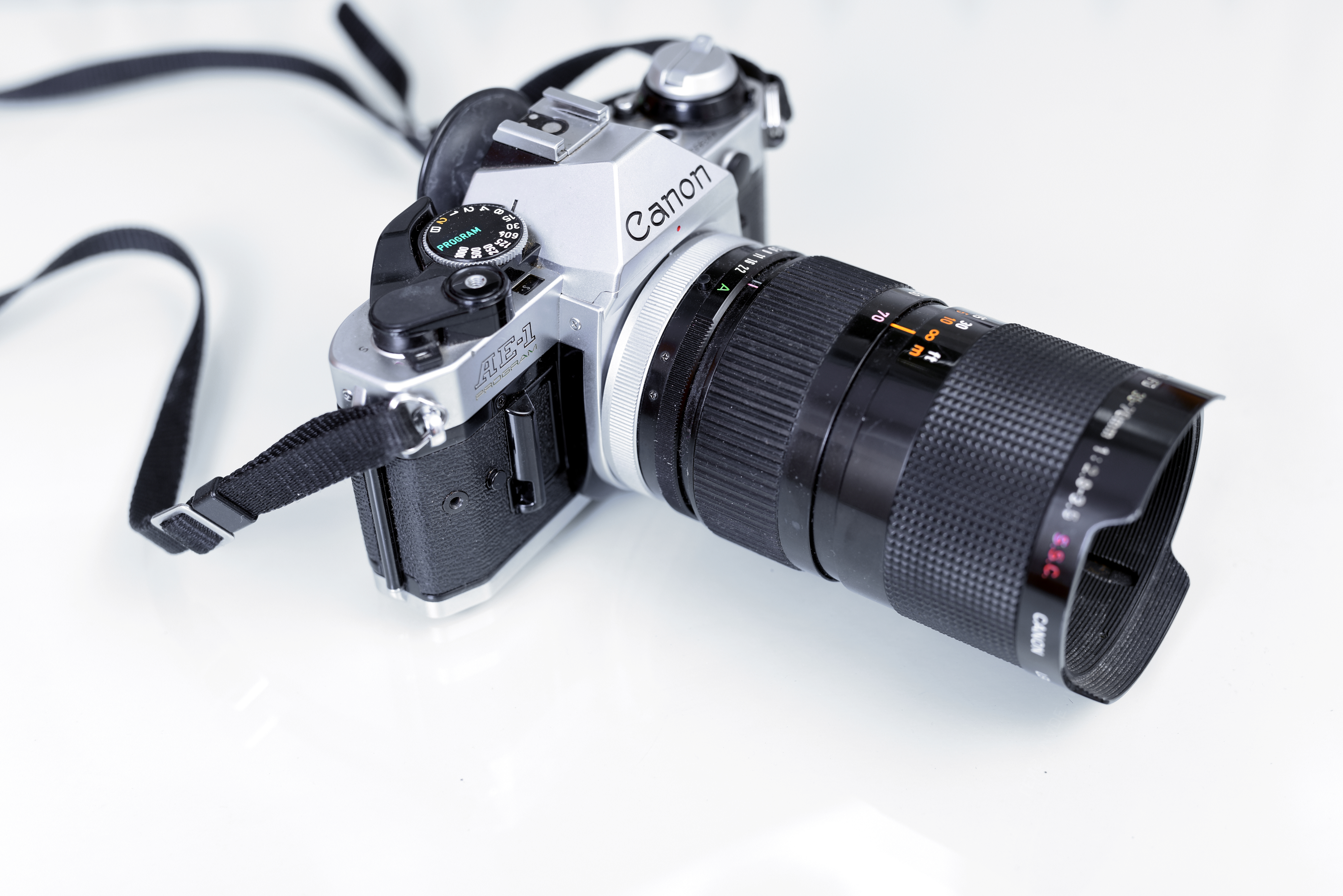 35mm Camera with telephoto zoom lens.